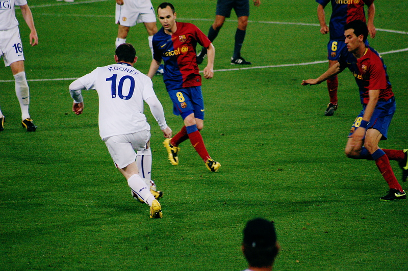 Wayne Rooney of Manchester United with the ball against Barcelona in the 2009 UEFA Champions League Final.